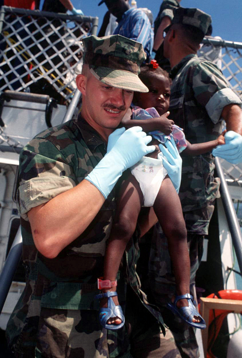 Young Haitian refugee returning from Guantanamo to Haiti. Original caption: “LCpl Rodney Gerenia from Headquarters Battalion, 2nd Marine Division, Camp Lejeune, North Carolina, carries a young Haitian girl down the ship's ramp at Port-au-Prince, Haiti during Operation Uphold Democracy. The Haitian refugees voluntarily returned to Haiti from the refugee camps at Guantanamo Naval Base, Cuba. US military forces are in Haiti to preserve law and order and to restore the democratic government of President Jean Bertrand Aristide. Exact Date Shot Unknown, 10/01/1994 ”